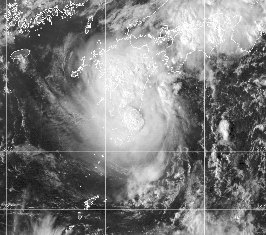 Visible image from GMS-5 of Tropical Storm Zia on 1999-09-14 as it was making landfall on Kyushu as a 45 knot system.